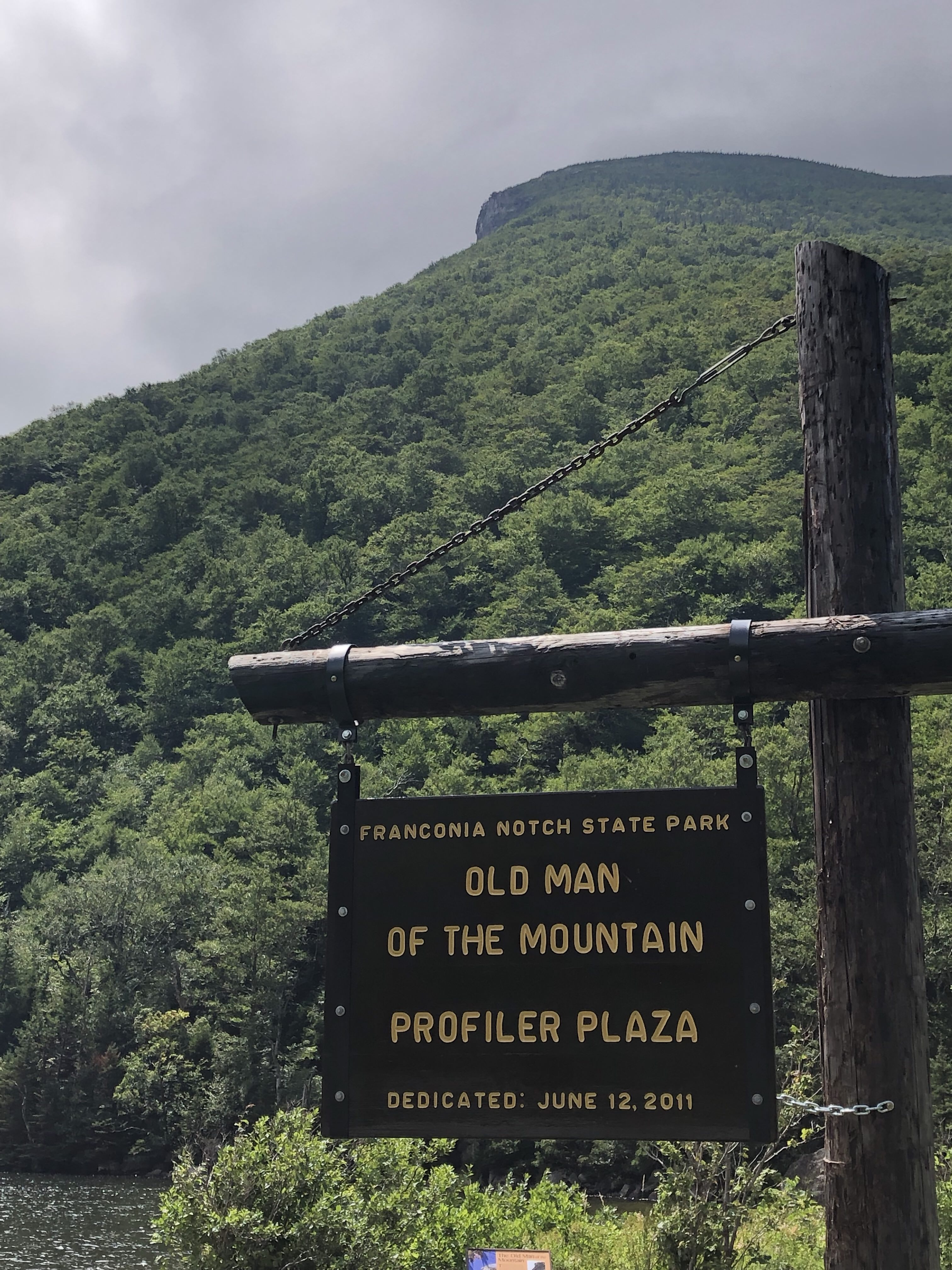 View of the former location of the Old Man of the Mountain, with sign for Profiler Plaza in the foreground, located in Franconia, New Hampshire.